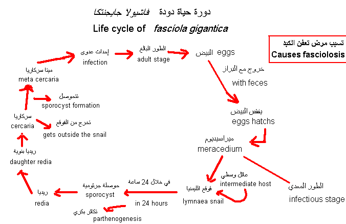 هذه هي دورة حياة دودة فاشيولا جايجنتكا ، وتسبب مرض تعفن الكبد. This is the life cycle of Fasciola gigantica, it causes fasciolosis. العائل الوسطي هو قوقع الليمنيا والعائل النهائي هو حيوانات المزرعة. The intermediate host is Lymnaea snail and the final host is farm animals.